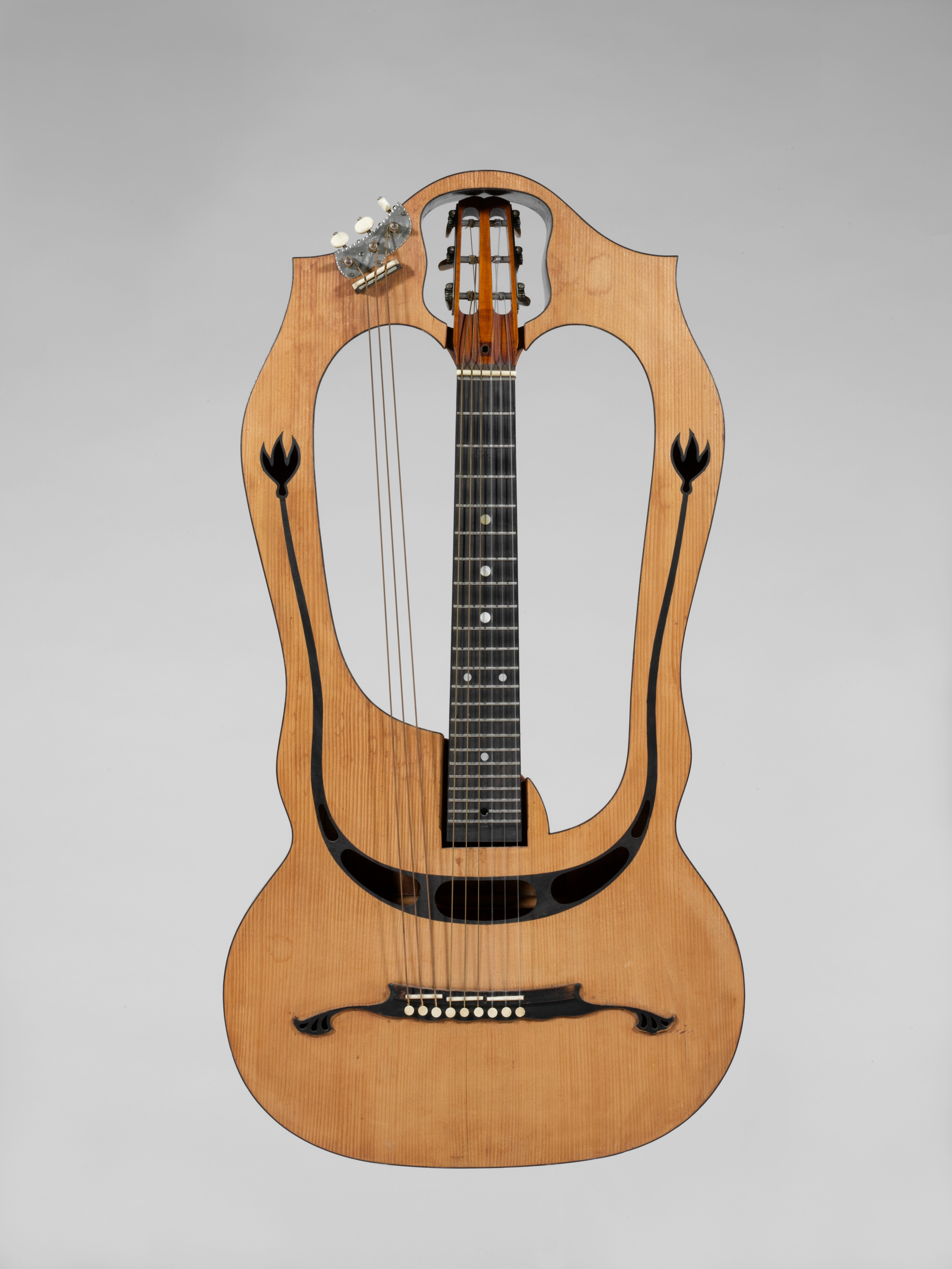 Italian; Harp Guitar; Chordophone-Lute-plucked-fretted